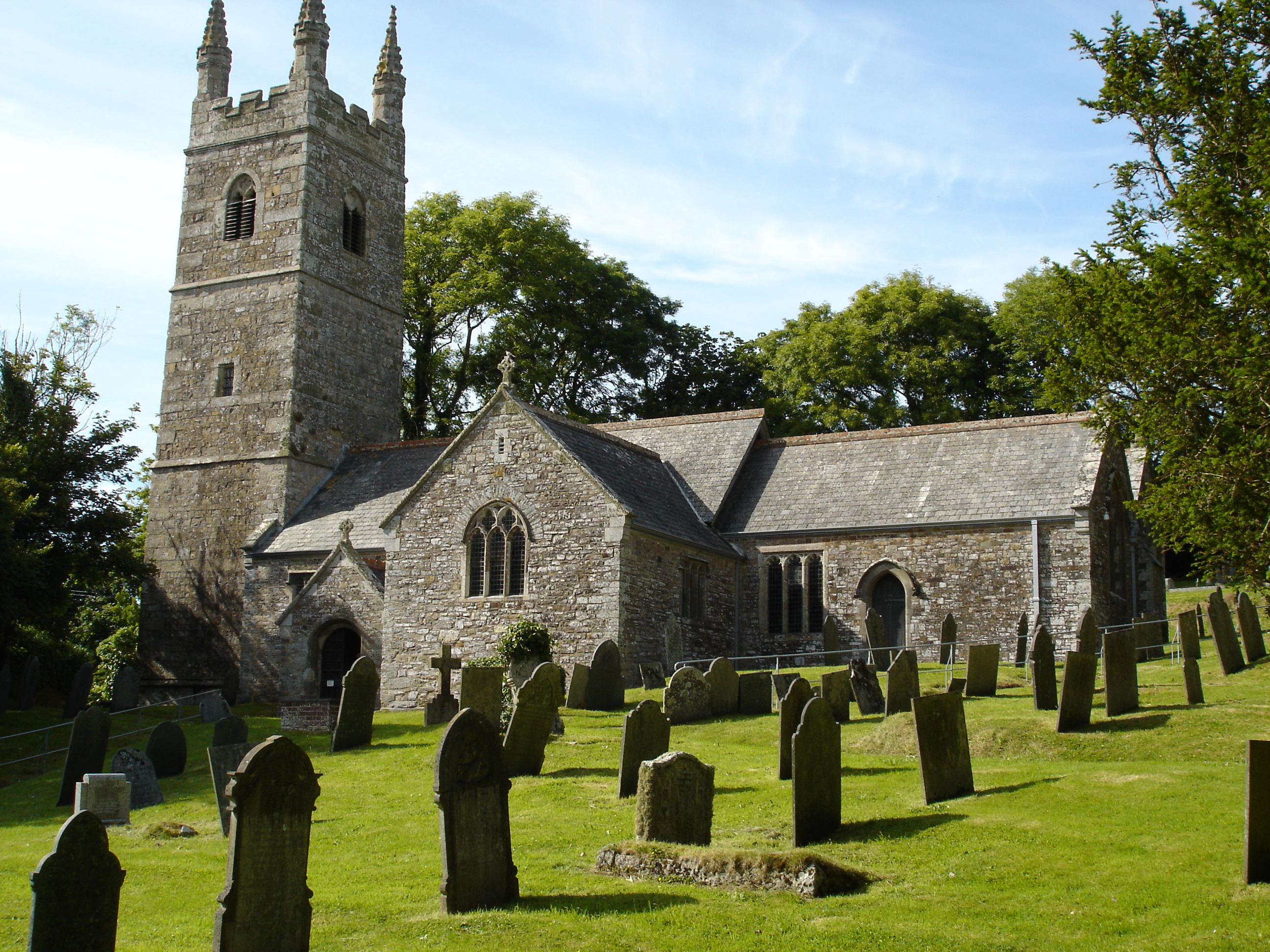 St Winwaloe's Church, Poundstock, UK. View from the south. Taken in June 2008